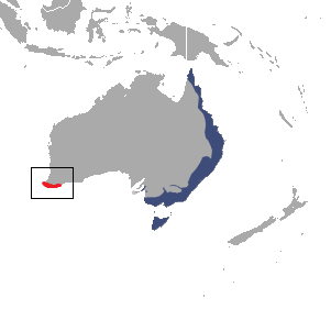 Distribution Western Ring-tailed Possum and Eastern Ring-tailed Possum